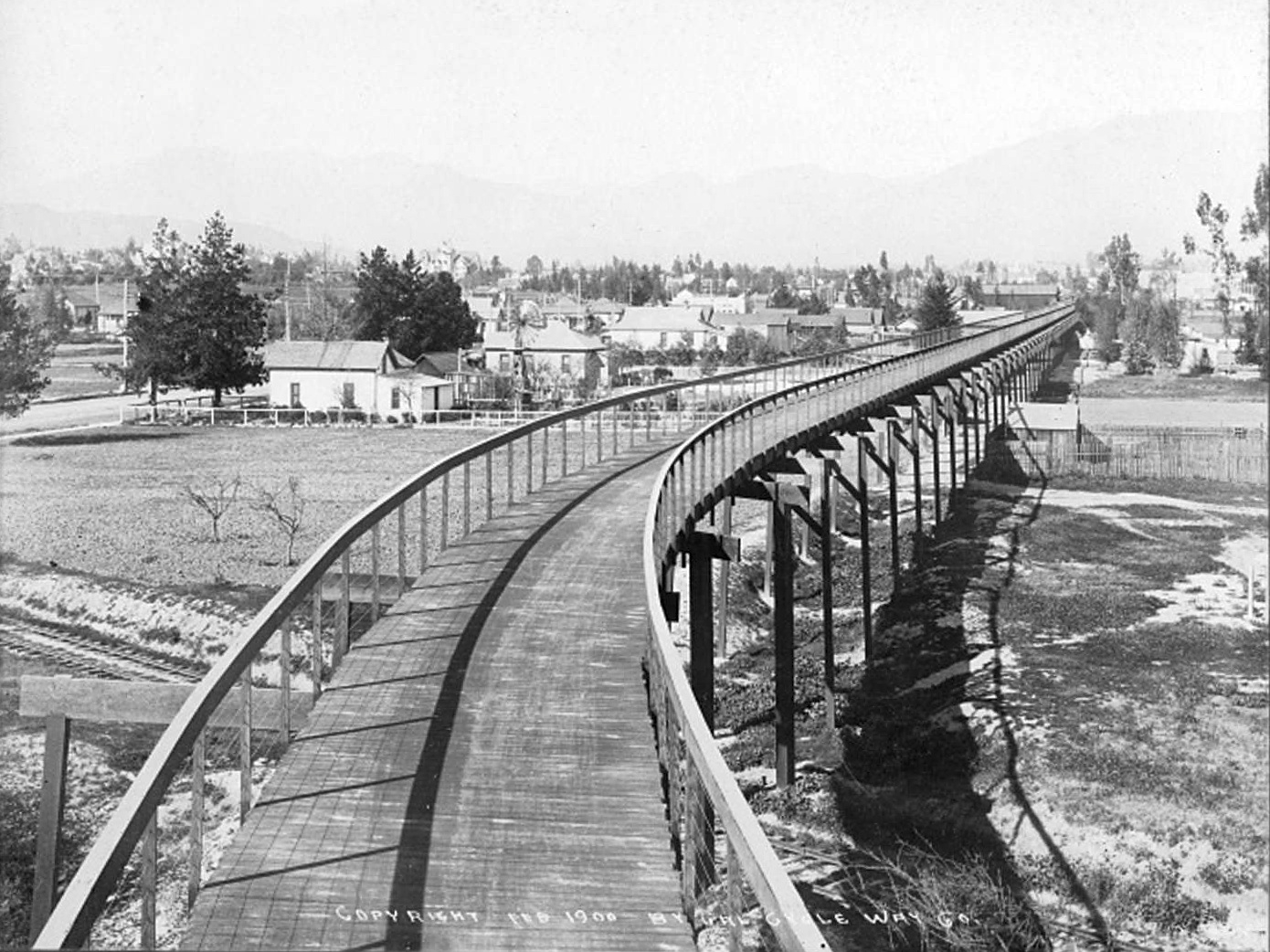 California Cycleway — Pasadena, California. A tolled elevated cycleway connecting Pasadena and South Pasadena along present day Edmondson Alley. View looking north from Raymond Hotel. Tracks in foreground are Santa Fe. Fair Oaks Ave. is on left side.